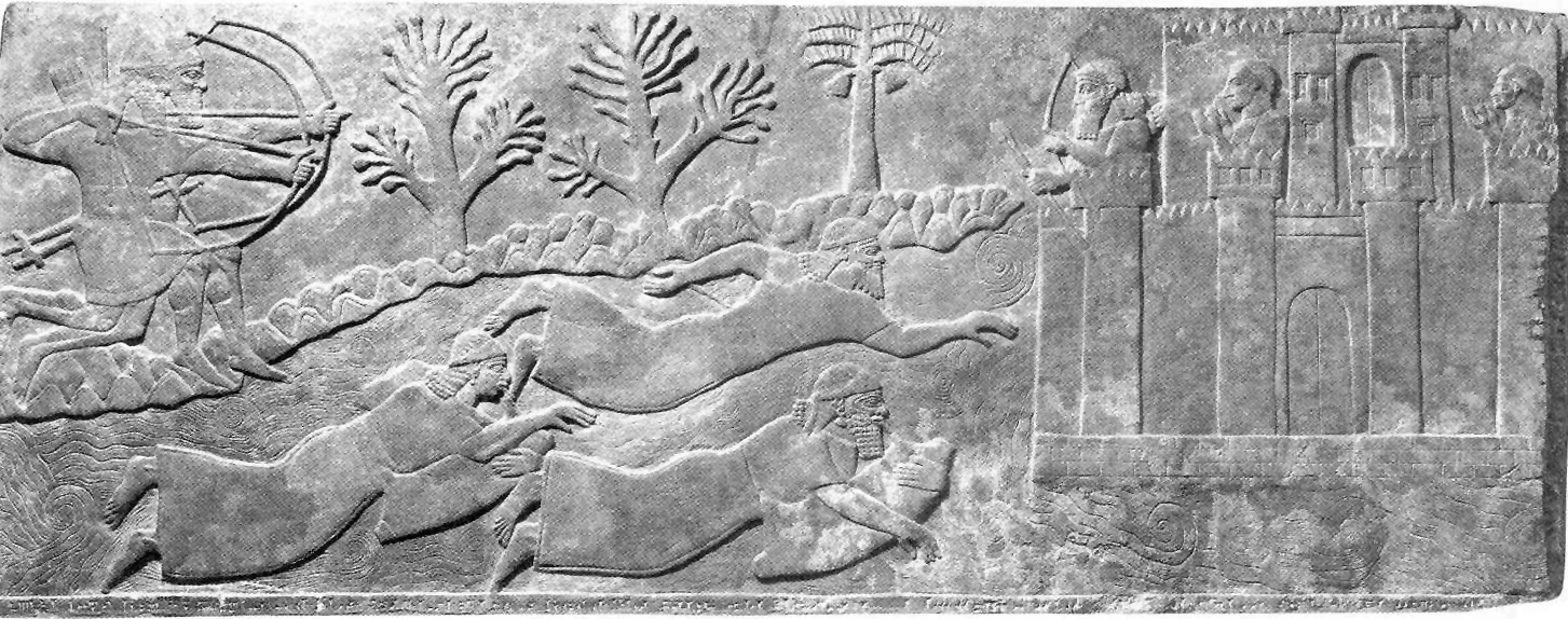 assyrian carving showing swimmers using inflated skins during an attack on a city by Ashur-nasir-pal II in 884 BC